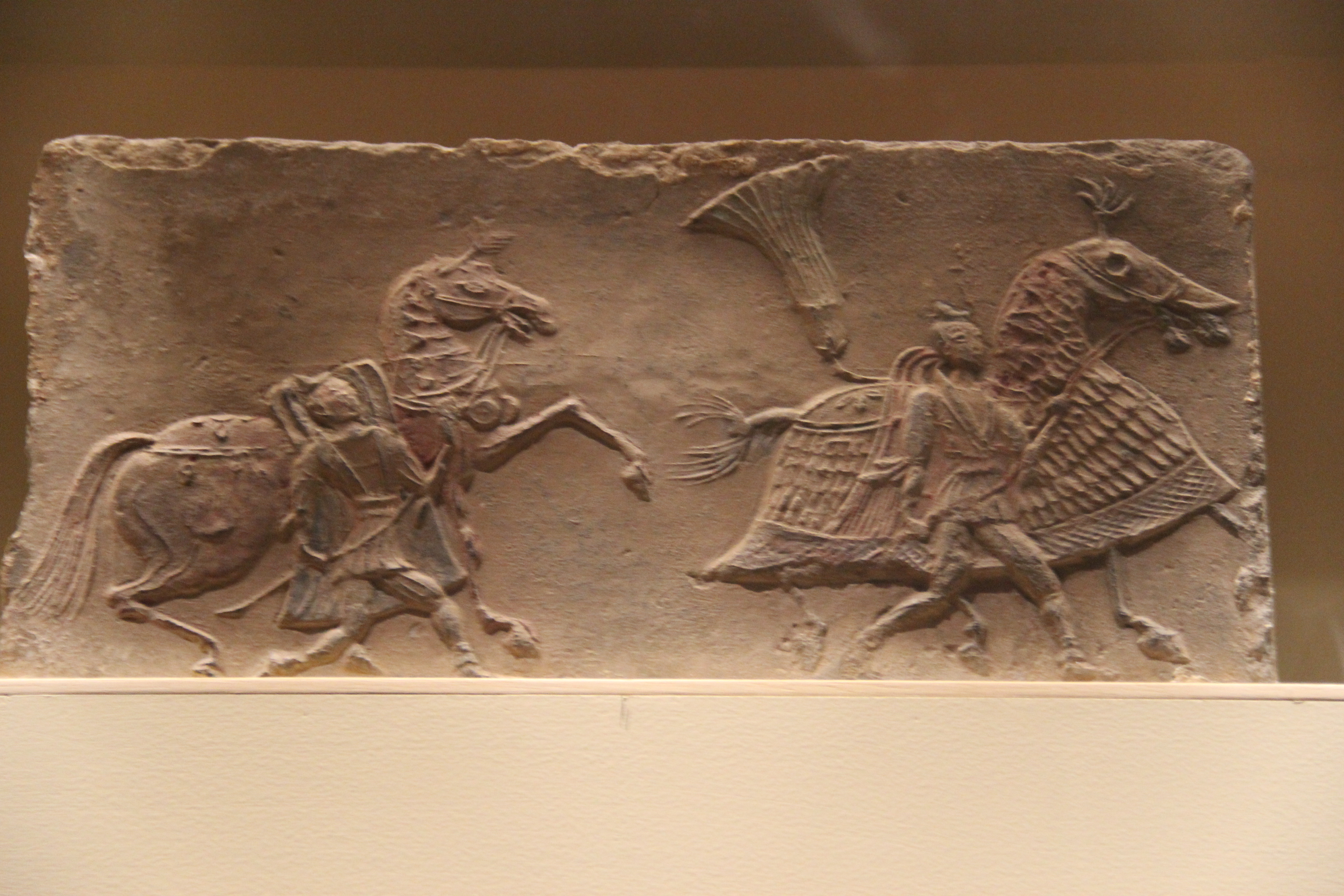 A Southern Dynasty brick relief displayed in Dengxian, Henan, 1958. National Museum: China through the Ages, Exhibit 5.